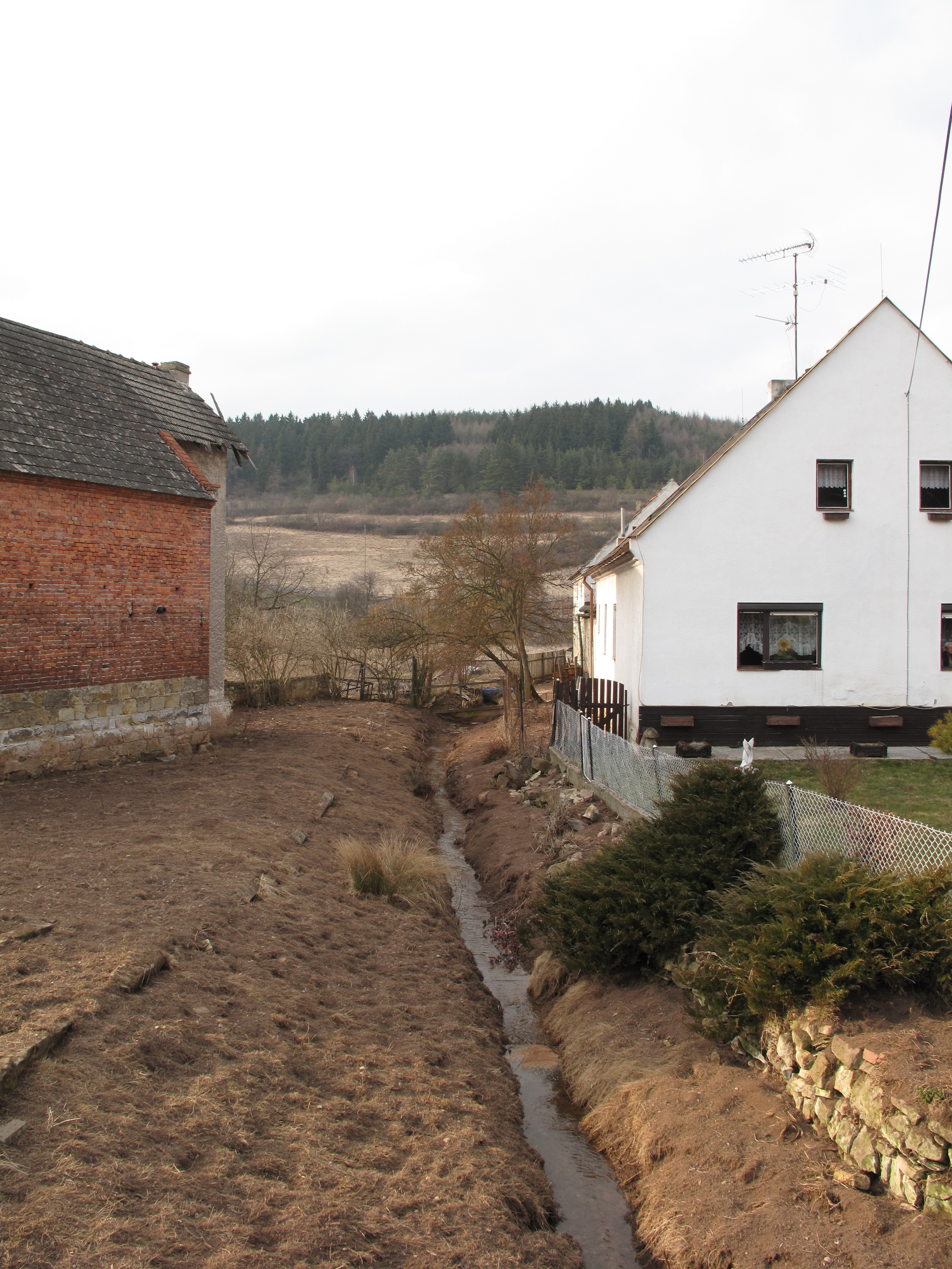 Klučecký potok (stream) in Nečemice village, Louny District, Czech Republic. Project: Vodstvo